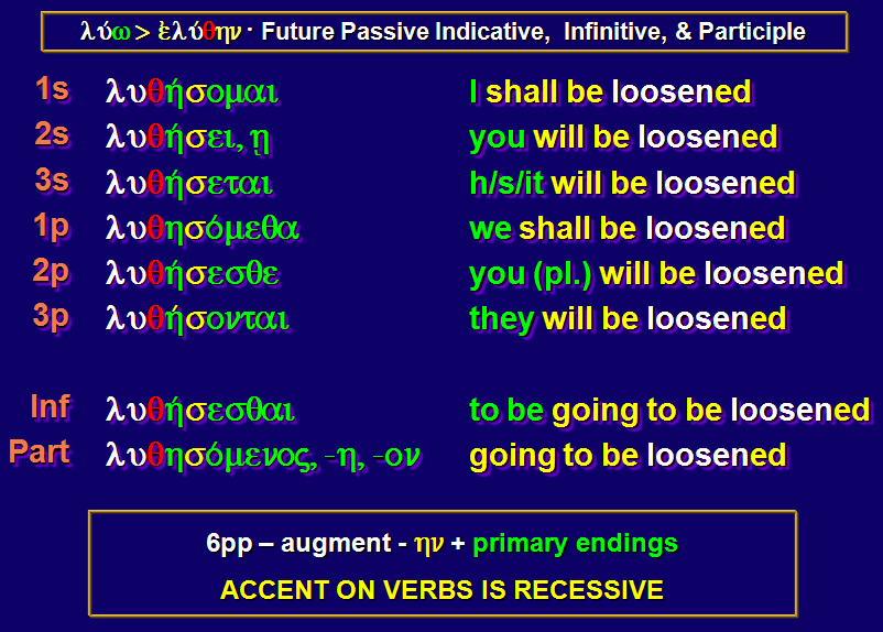 Greek: Future Passive Indicative, Infinitive, and Participle of luo